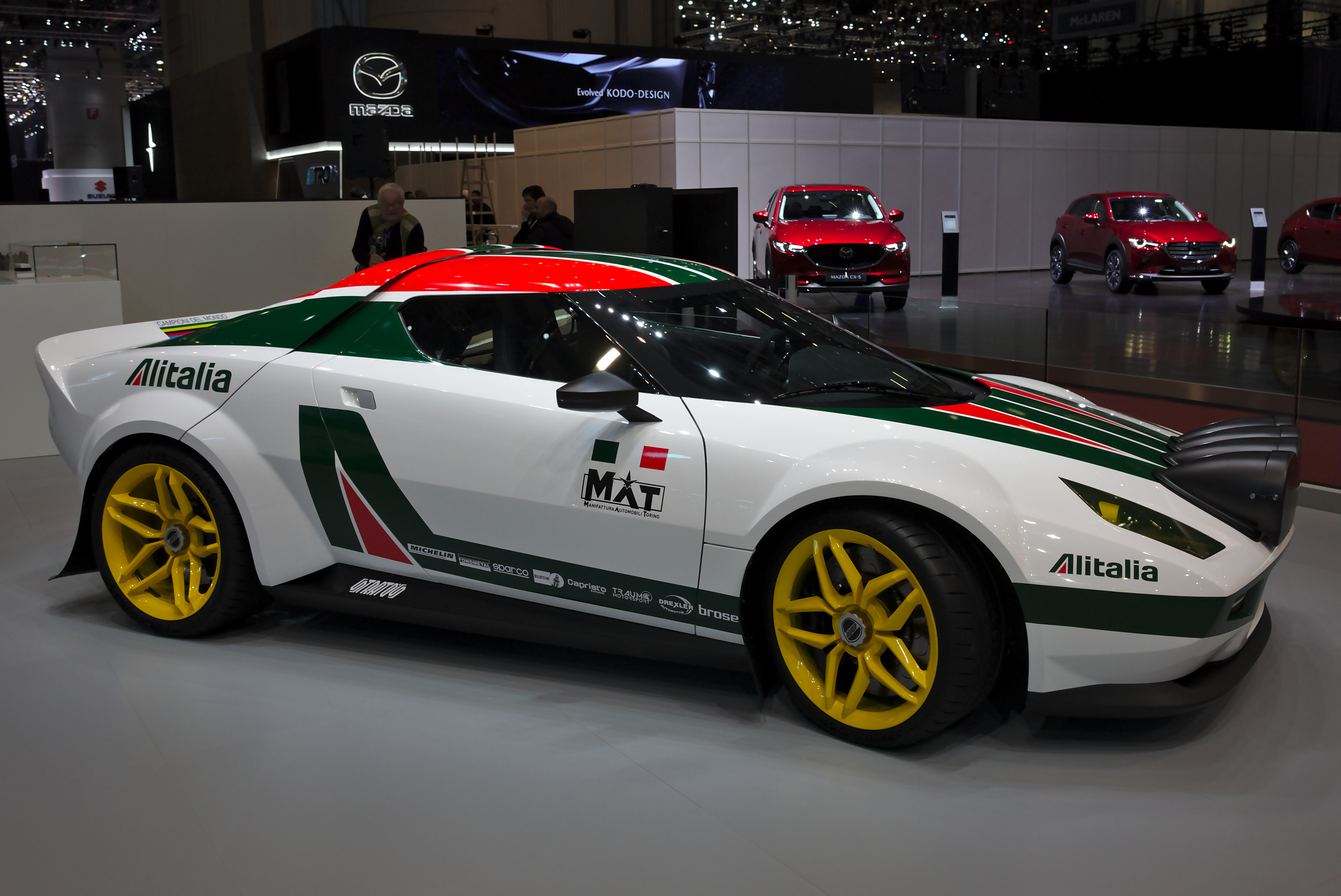 New Stratos at Geneva Motor Show 2019